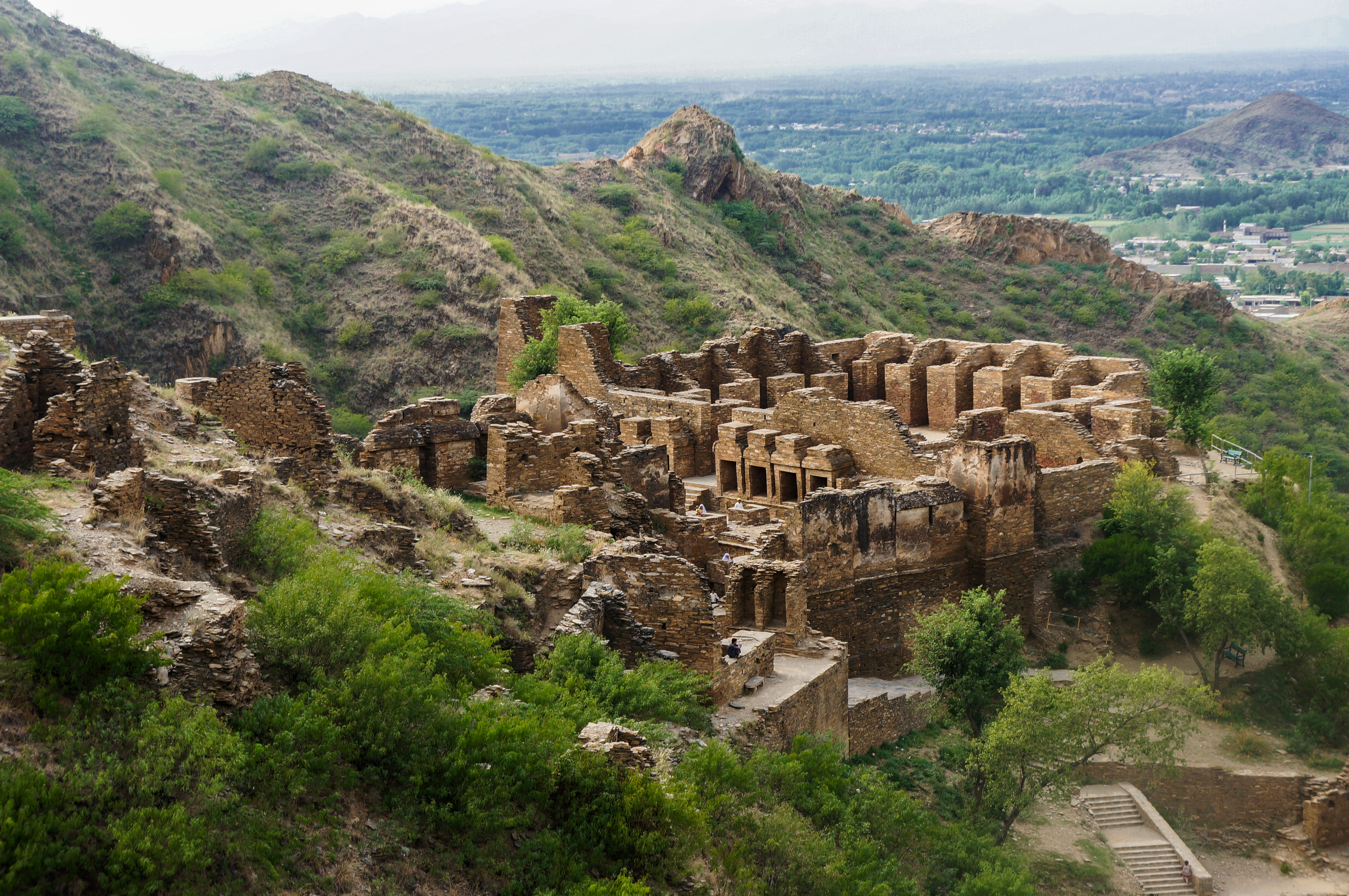 Takht-i-Bahi Buddhist ruins - view from the hilltop This is a photo of a monument in Pakistan identified as the KPK-34